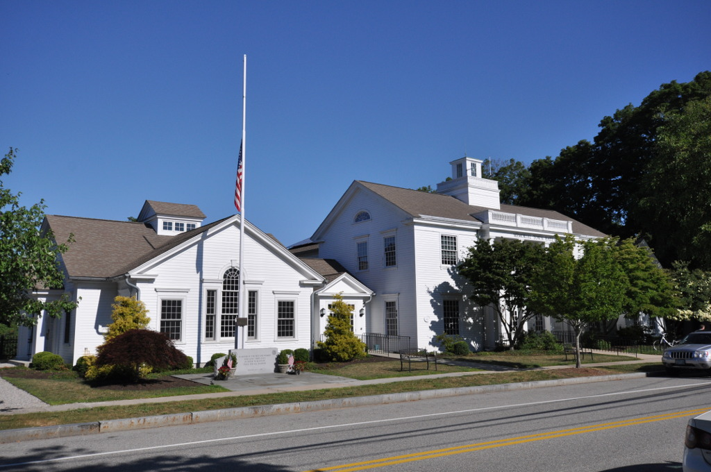 Old Lyme Town Hall, in the Old Lyme Historic District, Old Lyme, Connecticut.